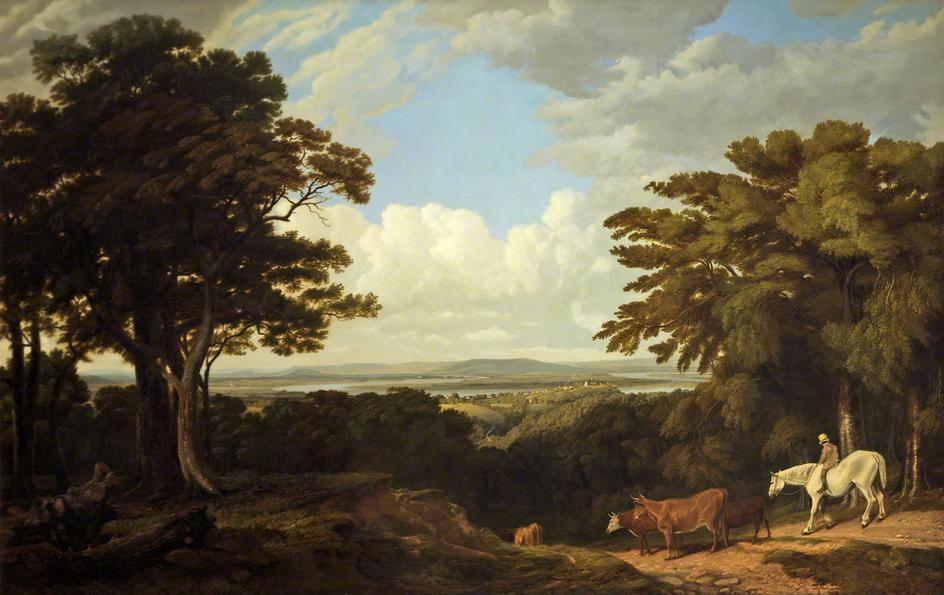 This exceptionally good example of William Turner's work complements a number of fine English landscapes already in the Museum's collection. It is also of local topographical interest as a detailed view of the Vale of Gloucester.